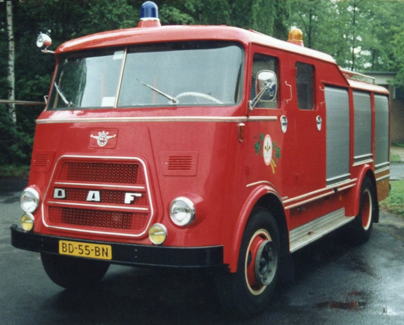 My second pic of a Dutch firebrigade engine, this time from a differrent angle